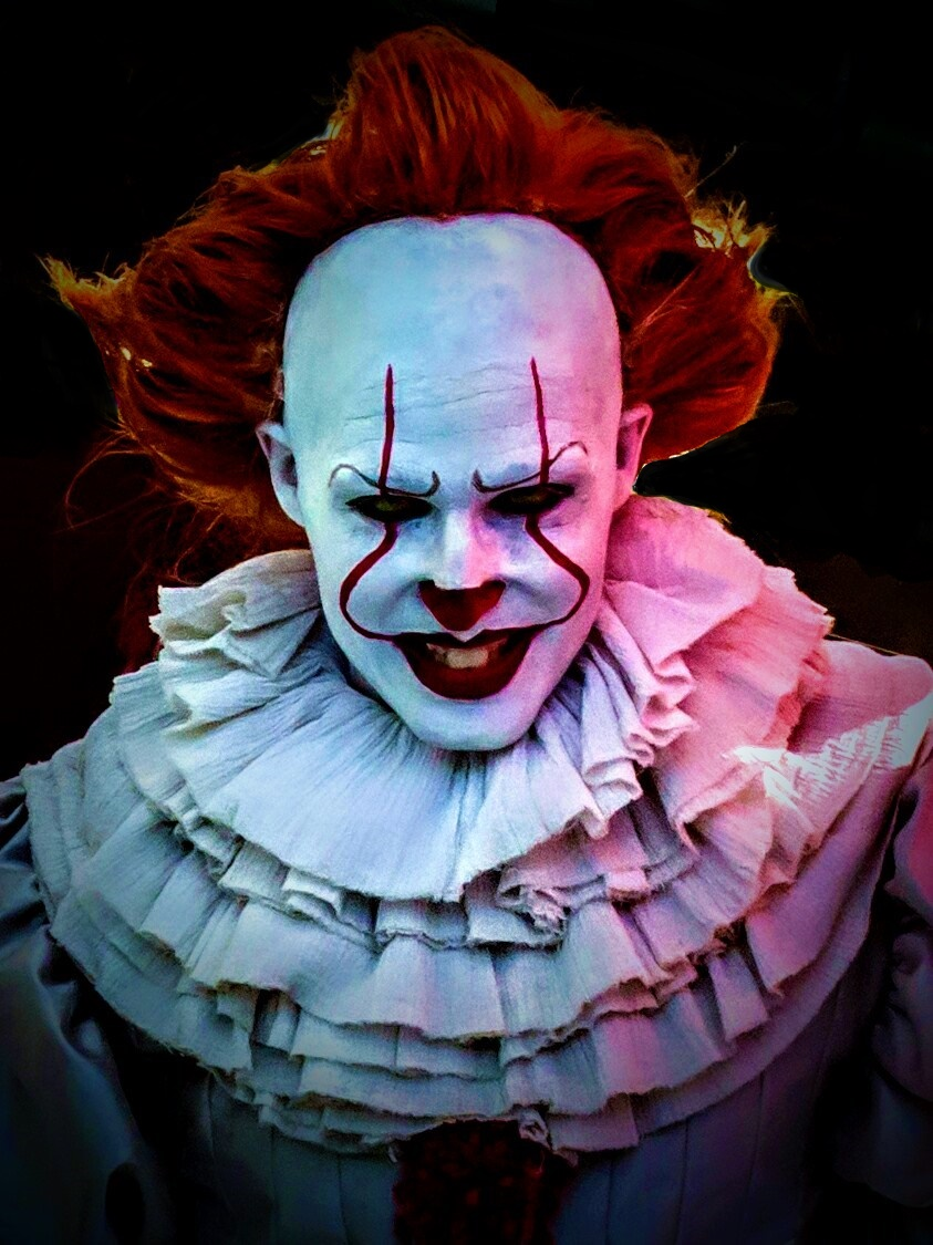 Pennywise cosplay at 2017 Montreal Comiccon.